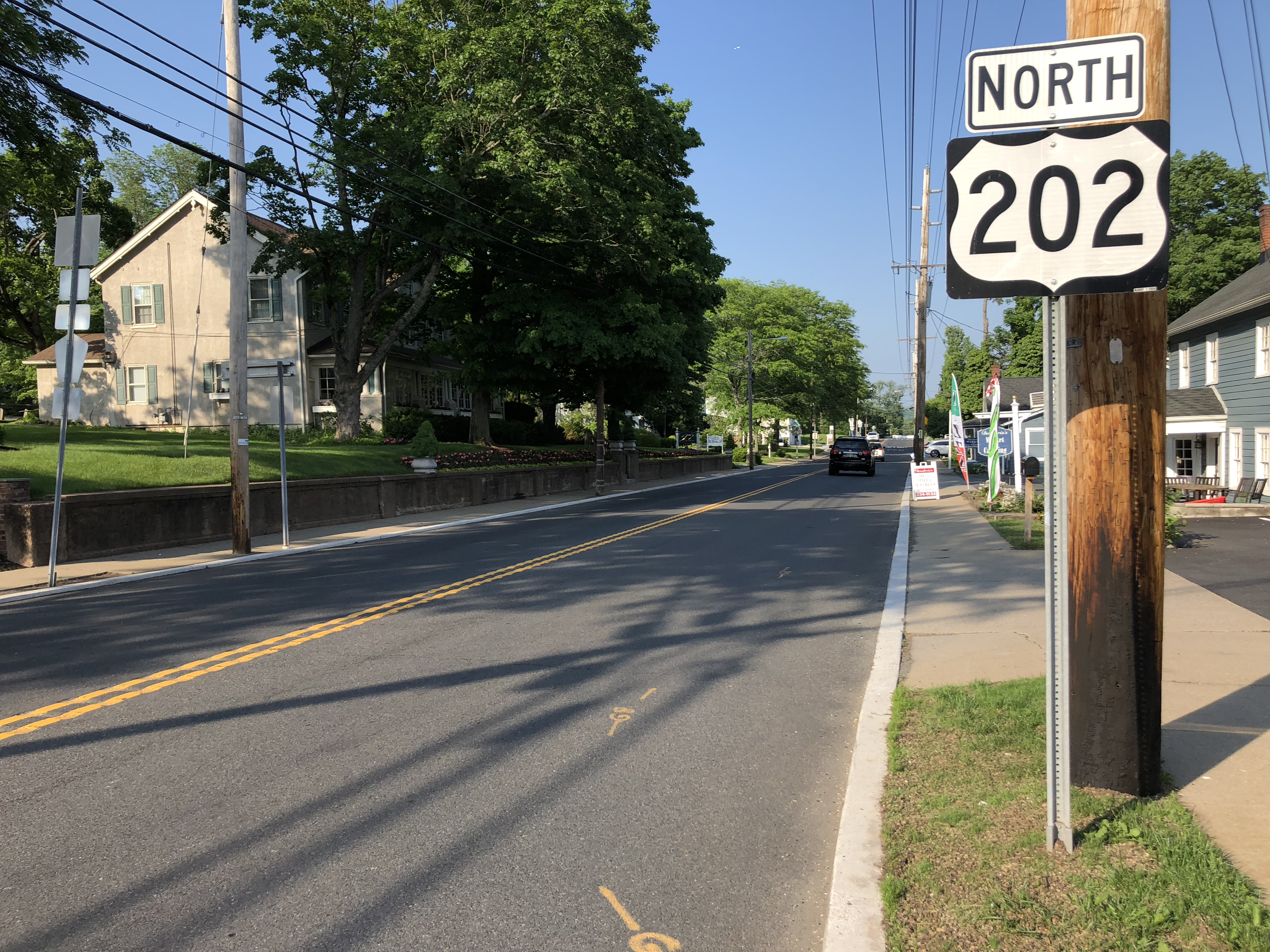 View north along U.S. Route 202 (Lamington Road) at Hillside Avenue in Bedminster Township, Somerset County, New Jersey